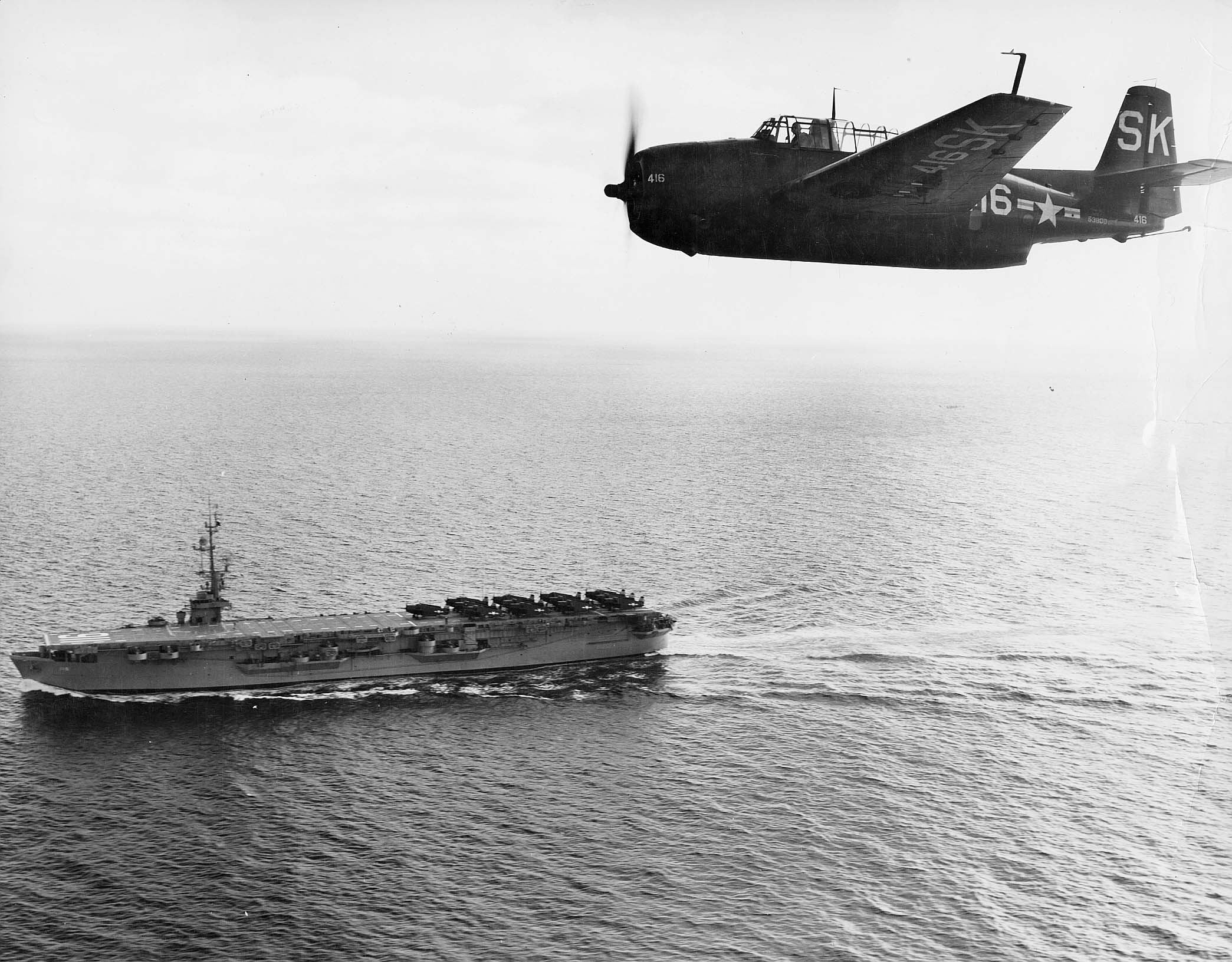 A U.S. Navy Grumman TBM-3E Avenger (BuNo 53800) of anti-submarine squadron VS-25 in flight over the escort carrier USS Badoeng Strait (CVE-116), circa 1950.